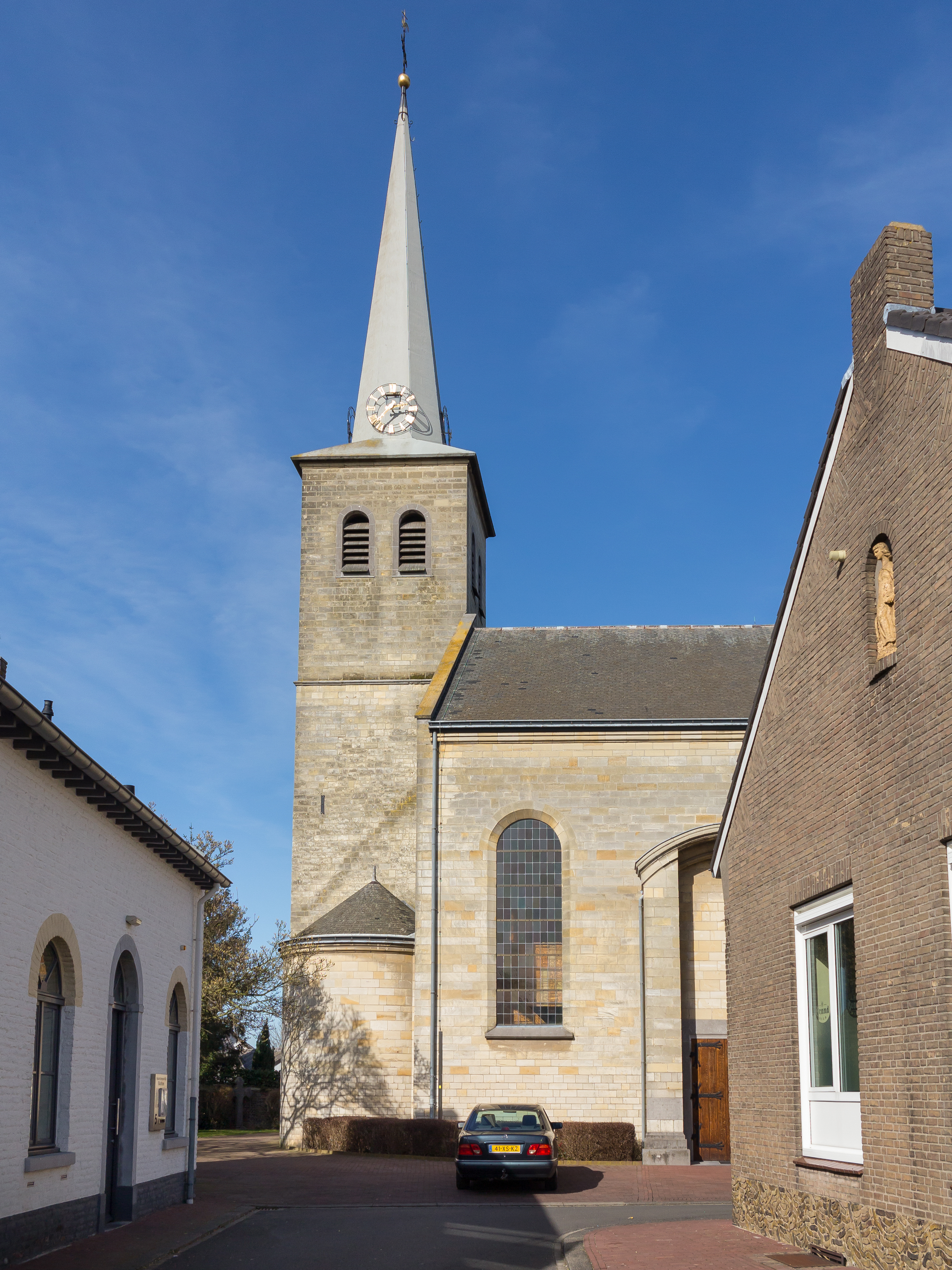 Buchten, church: de Sint Catharinakerk